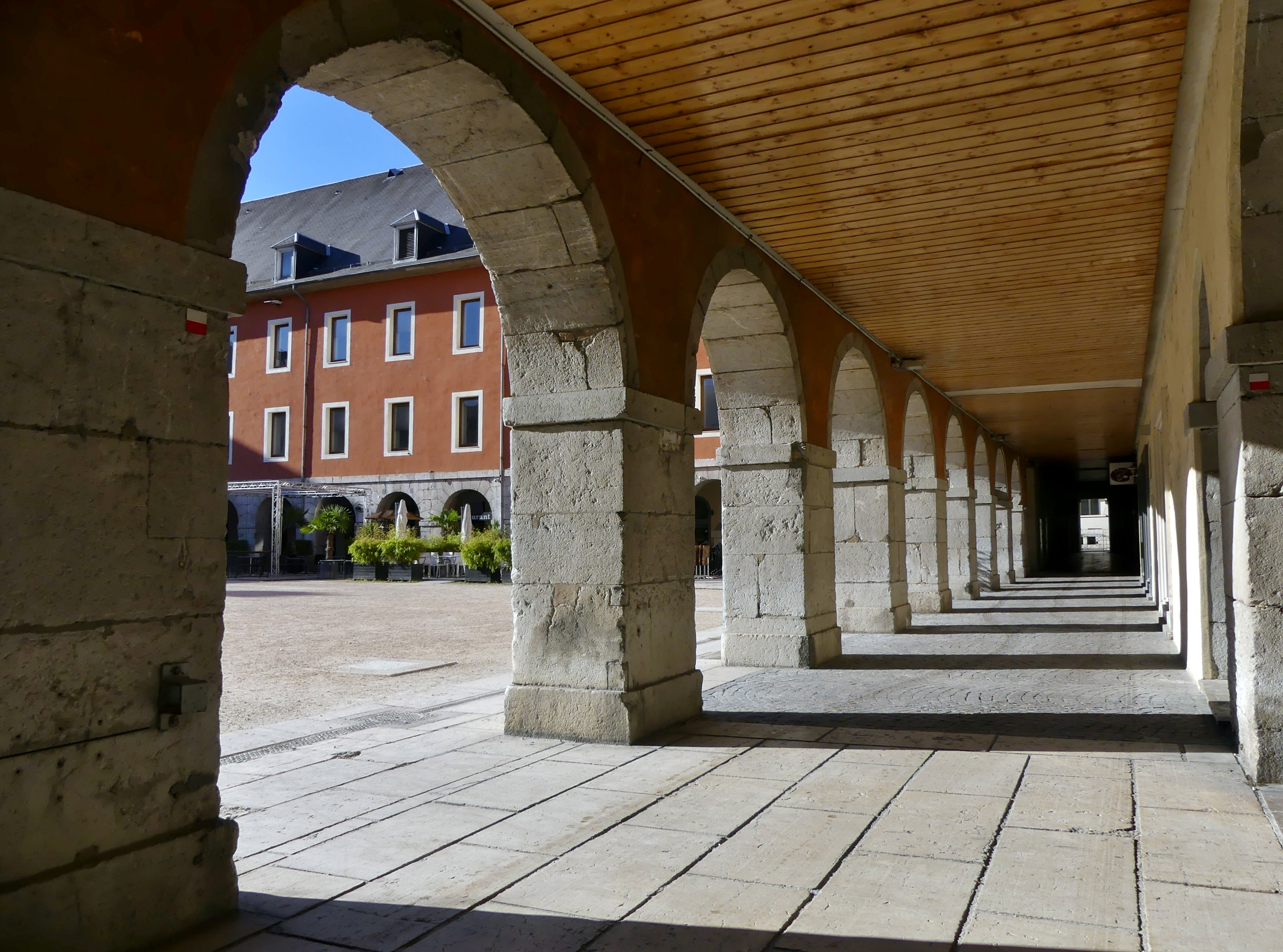 Sight, enlighted by the setting sun in the early morning, of the western gallery and part of the inner court of the Carré Curial building, in Chambéry, Savoie, France.